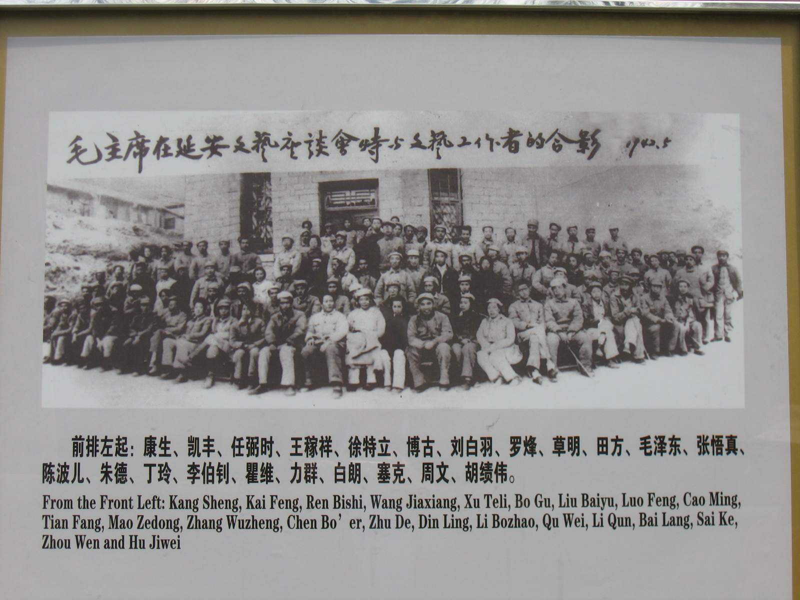 Yanan Shaanxi maoist city 陕西省延安市 Group picture, may 1942